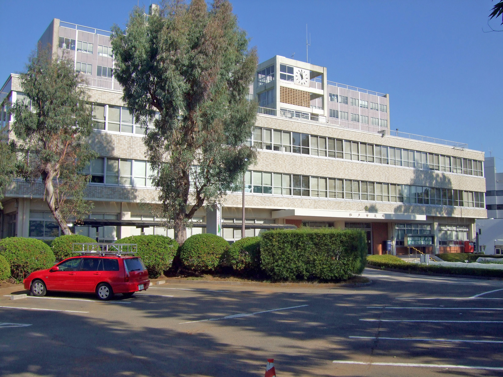 Matsudo City Hall.